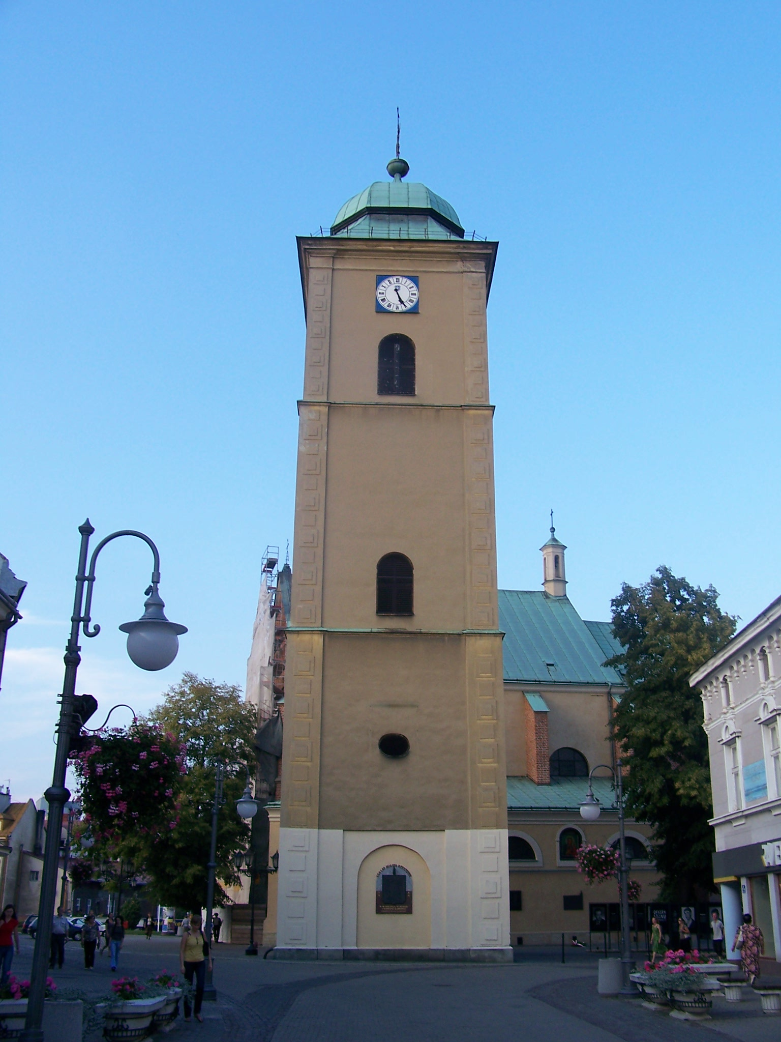 Church of Ss. Stanislas and Adalbert in Rzeszów, Poland